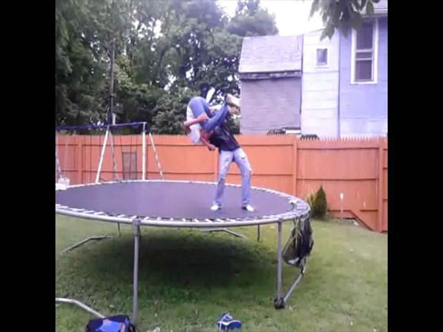 Suplex